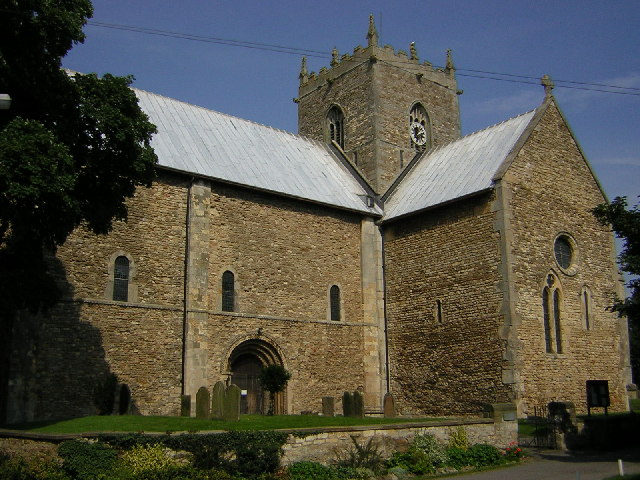 St.Mary's church, Stow, Lincs.